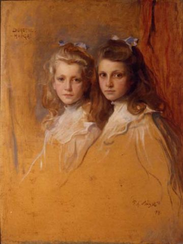 Portrait of Baronesses Marga and Dorothée Schröder